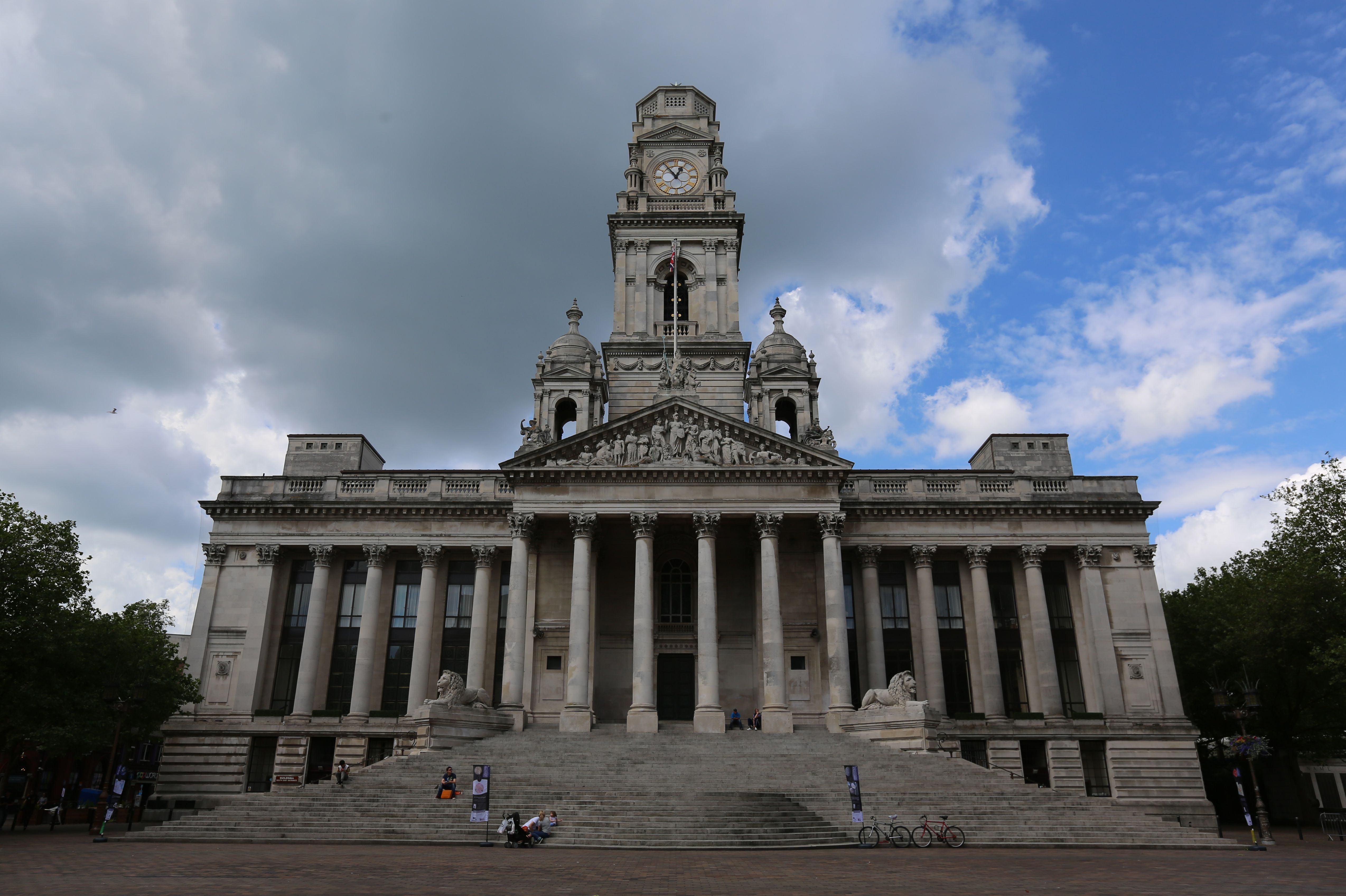 Portsmouth Guildhall from the front